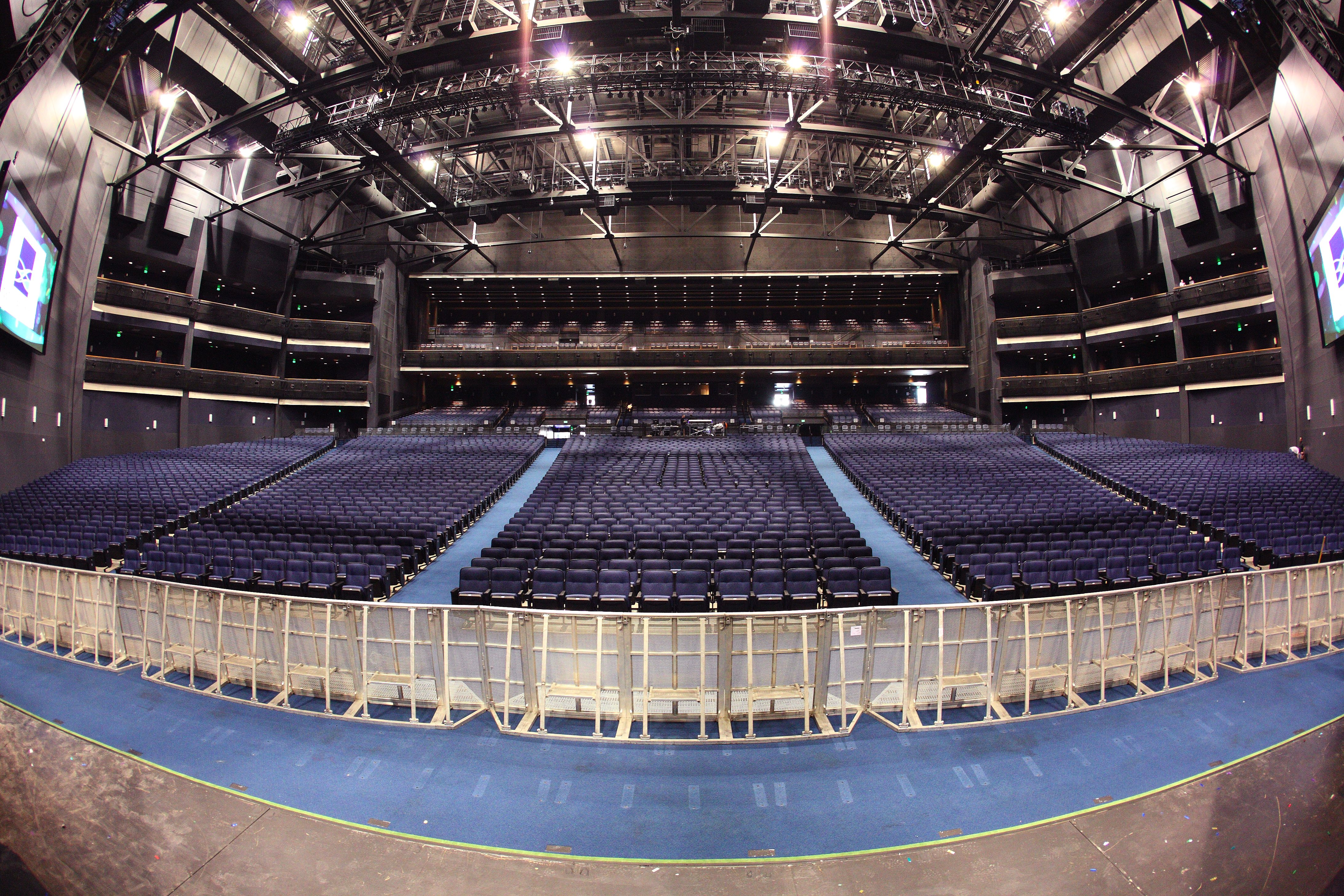 Interior of the Nokia Theatre, view of the house from stage — in the L.A. Live complex with the South Park District of Downtown Los Angeles.